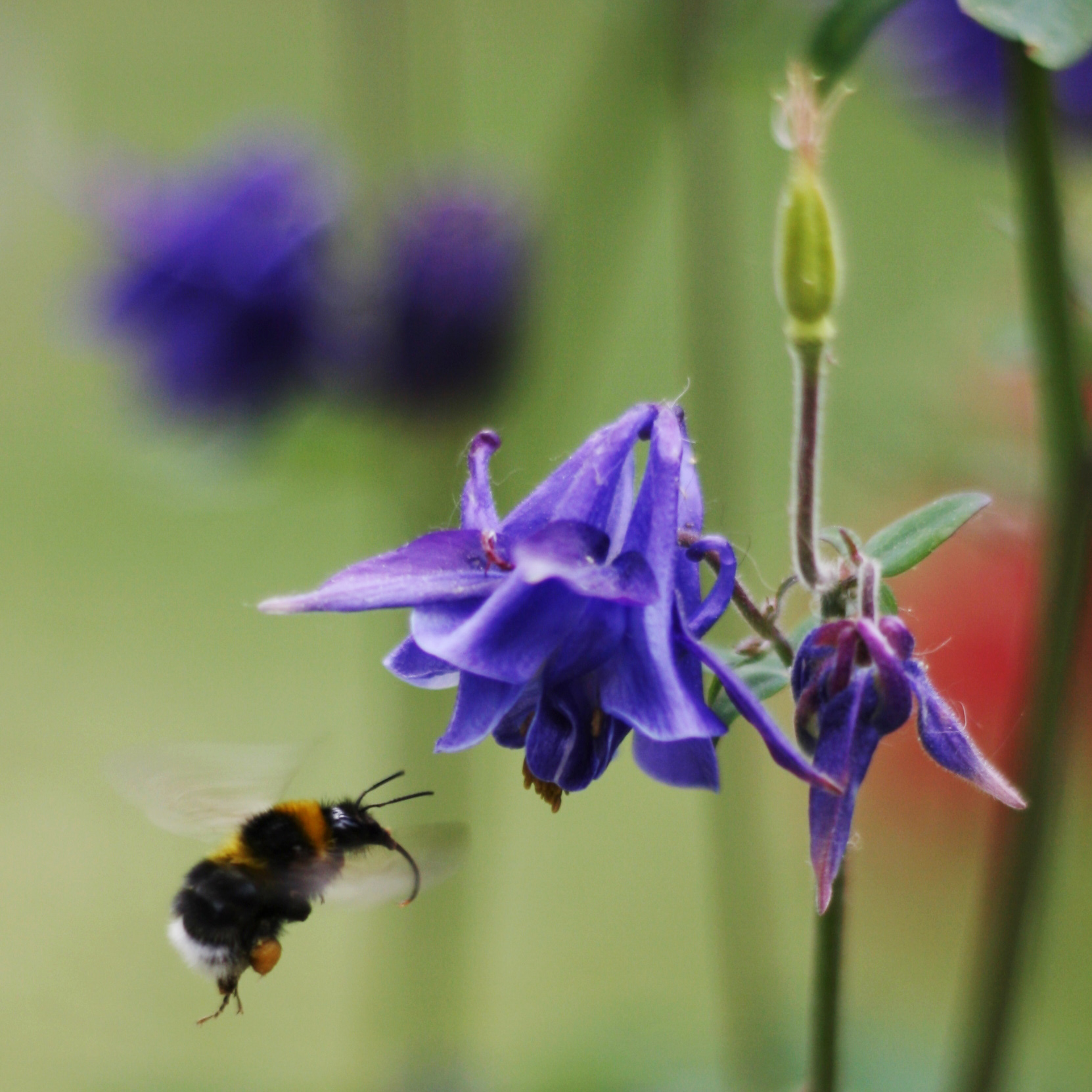 Bumblebee pollinating Aquilegia vulgaris